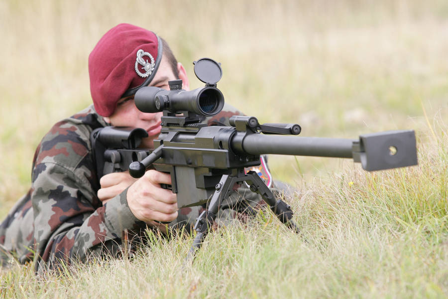 Slovenian sniper with PGM Hécate II